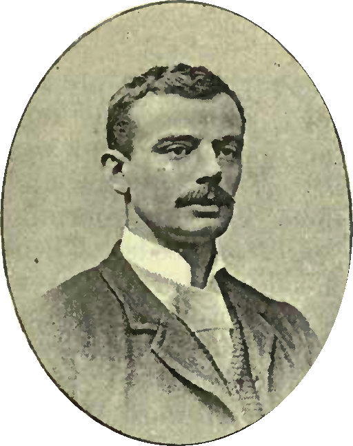 A picture of Fred Bonsor, former captain of the England rugby union team.